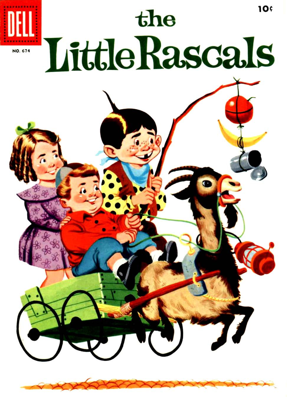 Painted cover to Four Color Comics number 674, featuring "The Little Rascals" (January 1956). Dell Publications was perhaps the most successful comics company of the Golden Age, outstripping DC, Atlas, Fawcett and Quality in monthly sales figures for well over a decade.